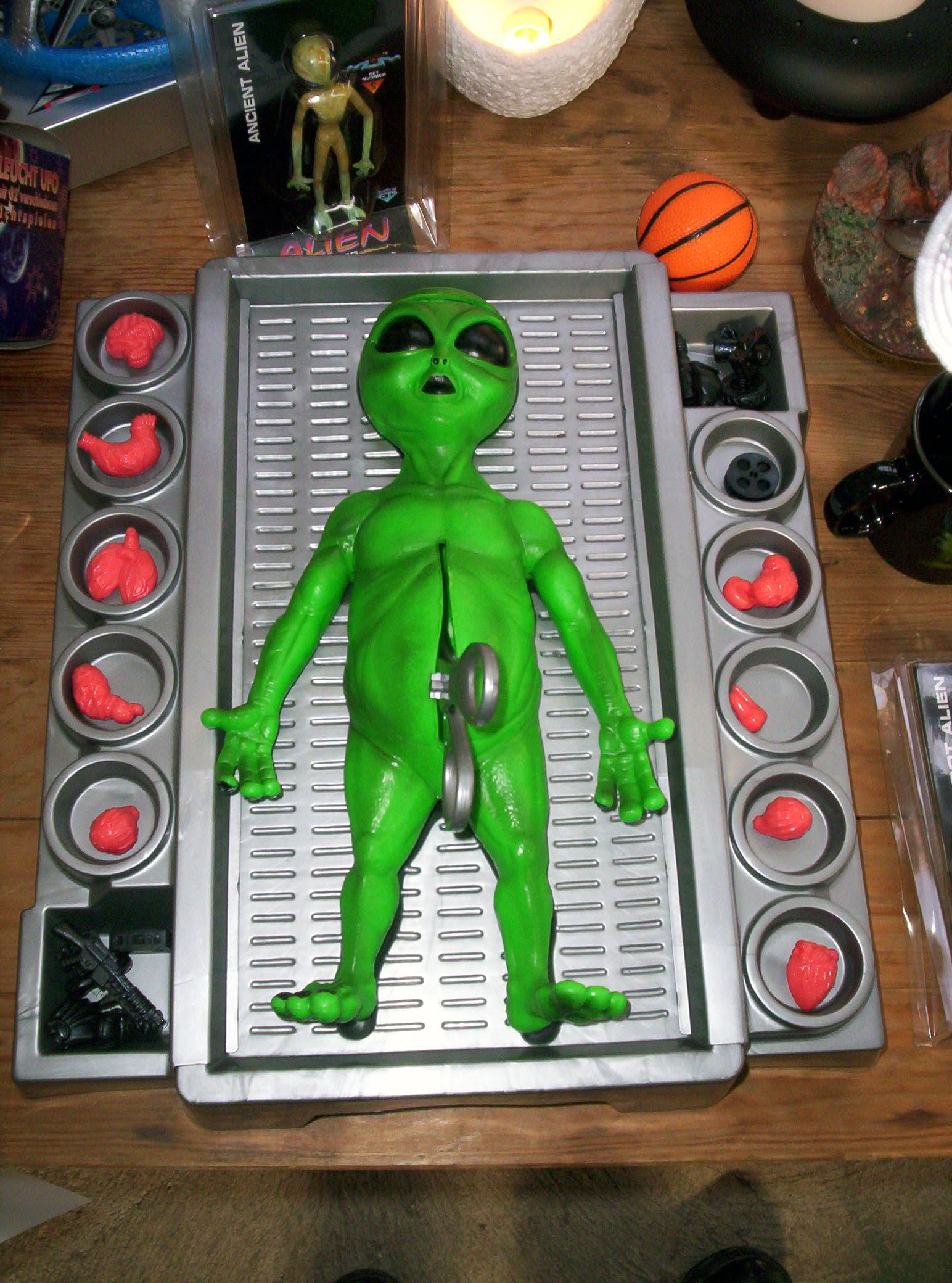 Europeen UFO Congress 2005, Châlons en Champagne, France.